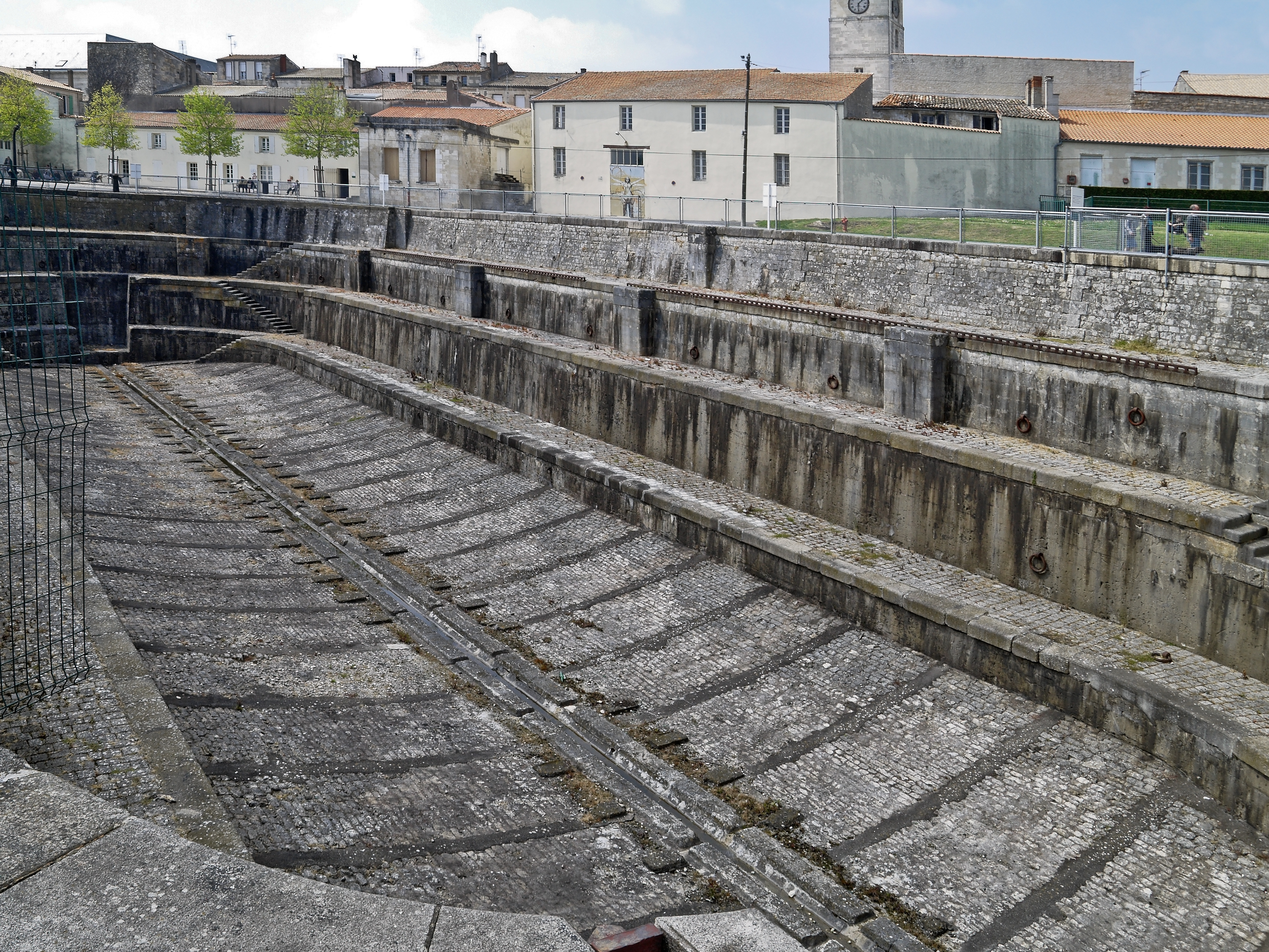 Rochefort (Charente-Maritime, France) - One of the the original twin dry docks known as or the “double forme” or the “Louis XV Dry Dock”, designed in the 17th century.